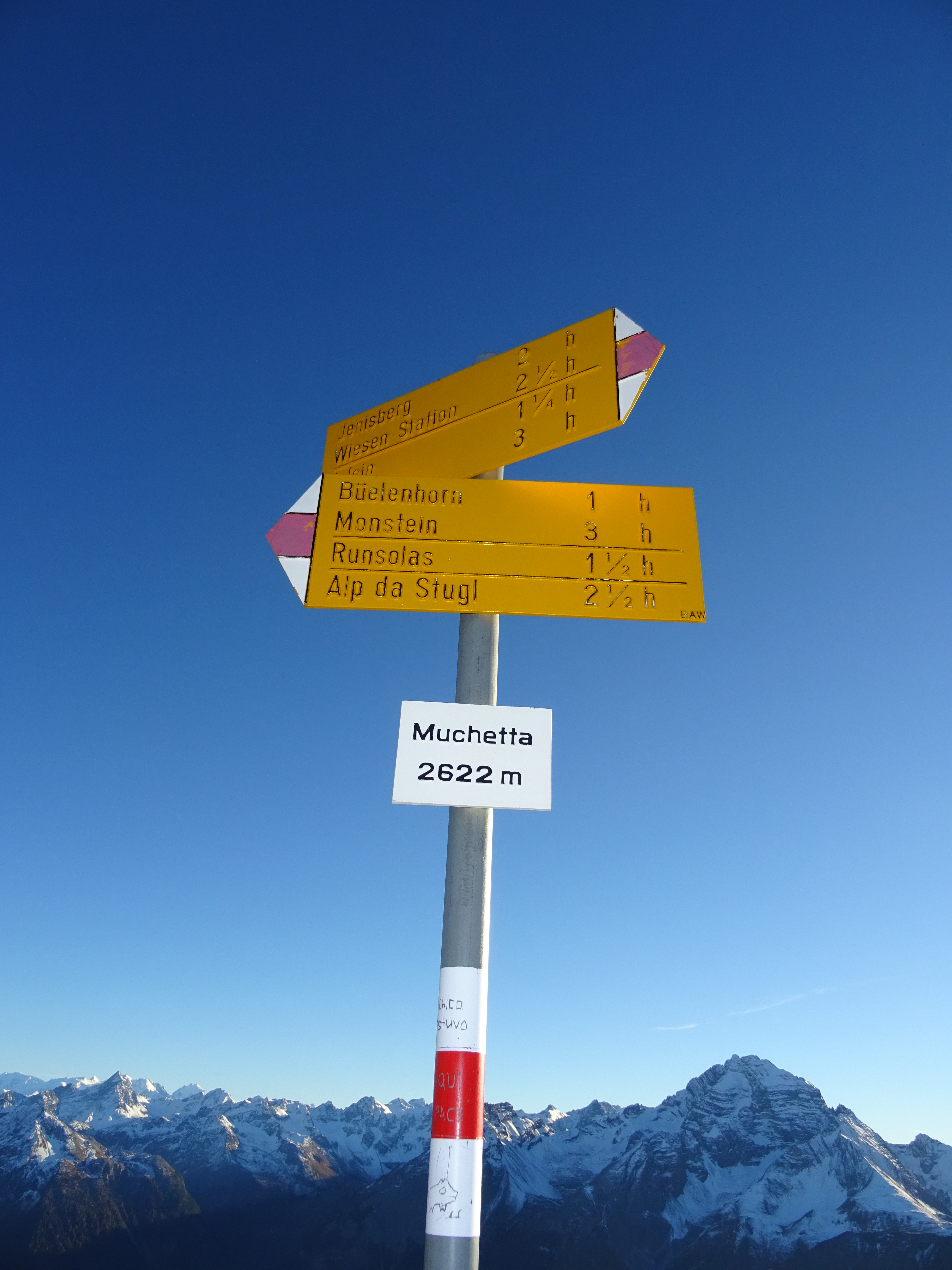 Fingerpost near Muchetta (Filisur / Bergün/Bravuogn, Grisons, Switzerland)